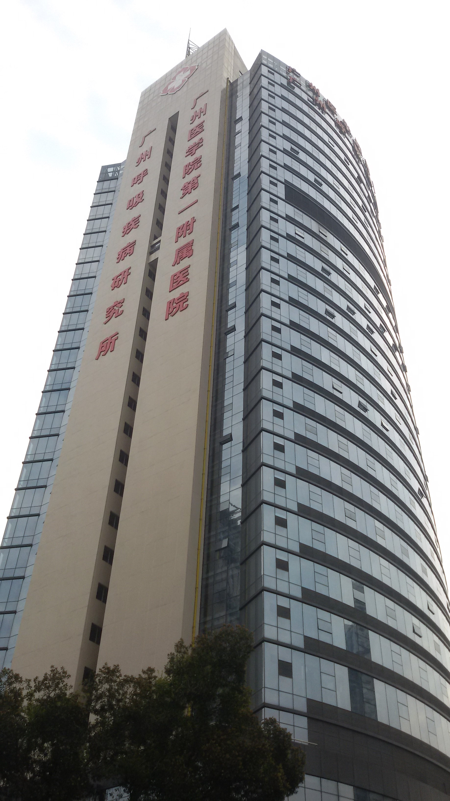 The 1st Affiliated Hospital of Guangzhou Medical University.